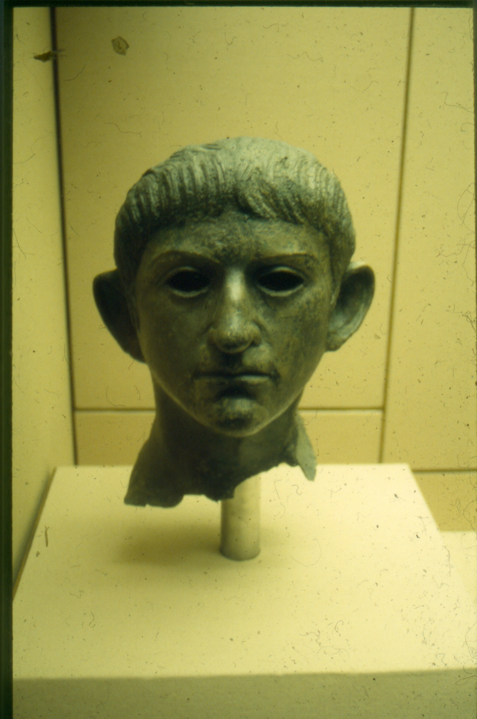 Bronze Portrait of Roman Emperor Claudius. Found in the River Alde, Rendham, Sussex. British Museum cat.no. PRB 1965.12-1.1